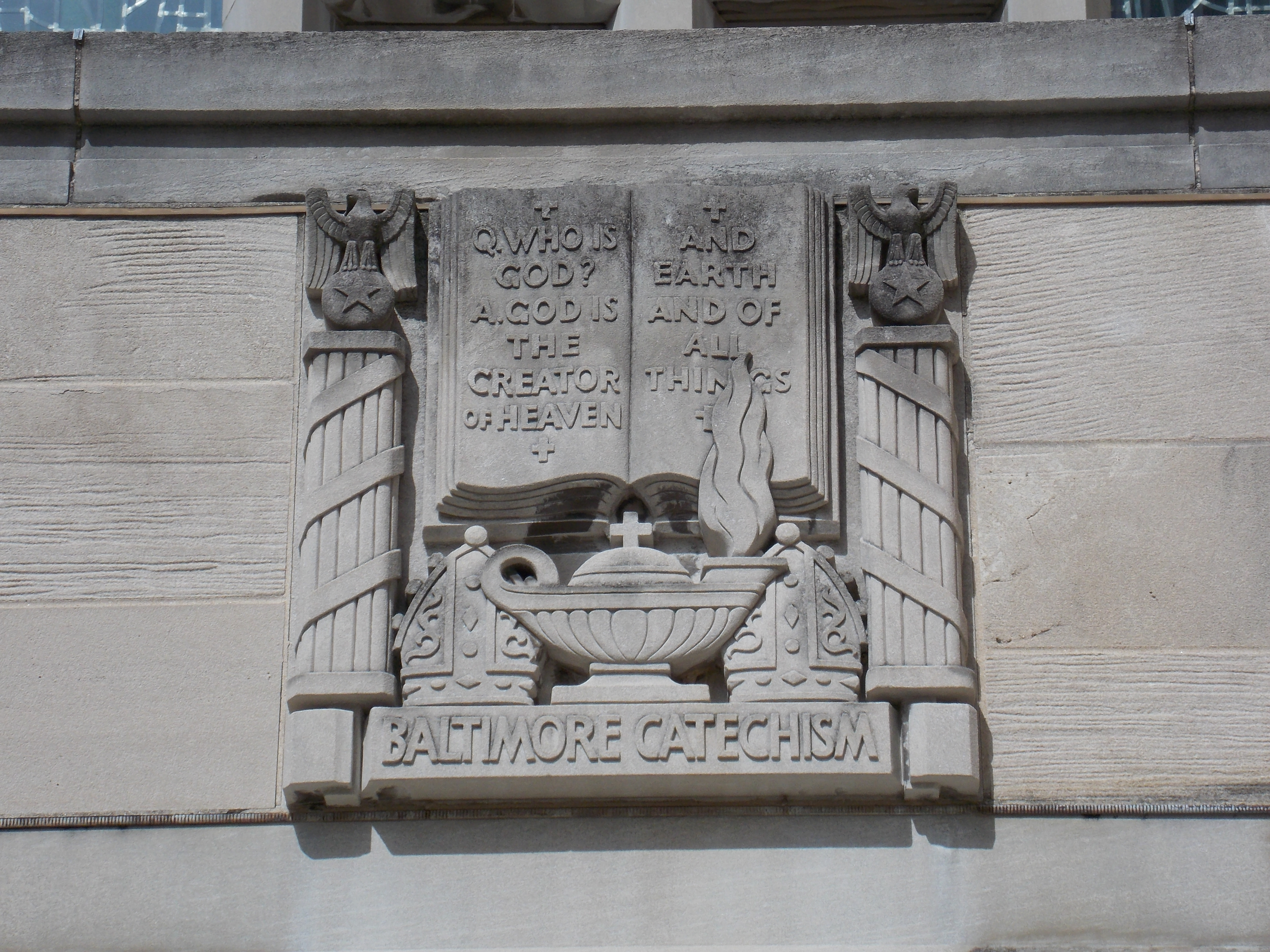 A relief commemorating the Baltimore Catechism on the exterior of the Cathedral of Mary our Queen in Baltimore, Maryland.